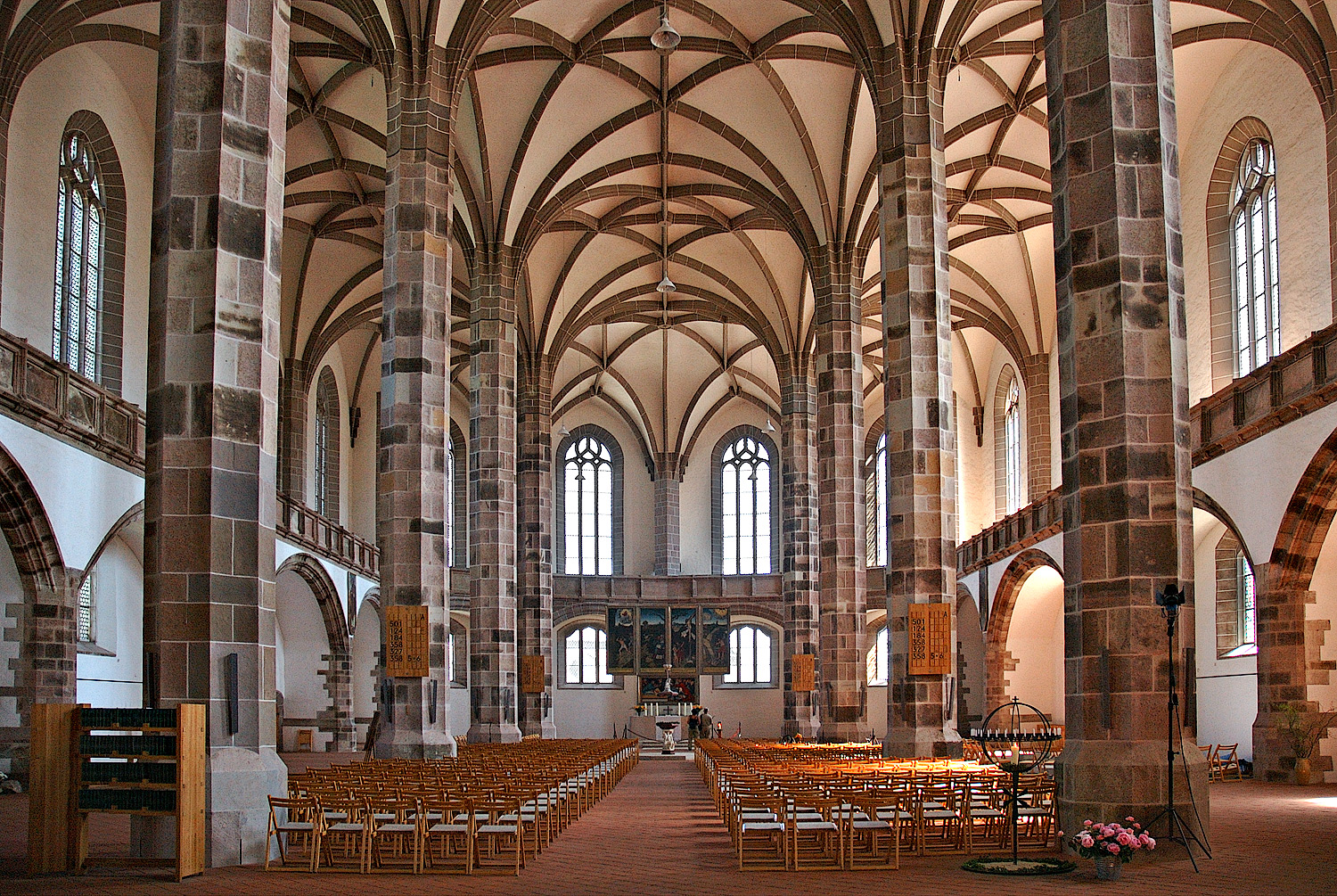 This image shows the inside of the church "St. Wolfgangskirche" in Schneeberg (Saxony, Germany).